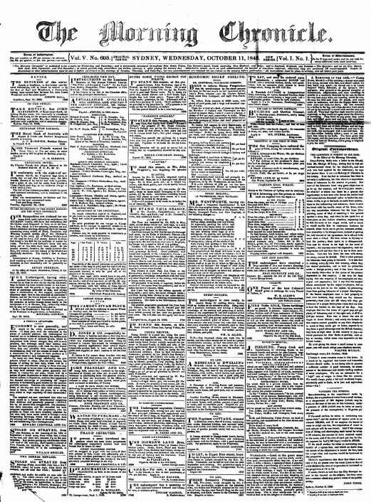 Cover page of an historic newspaper from New South Wales, Australia